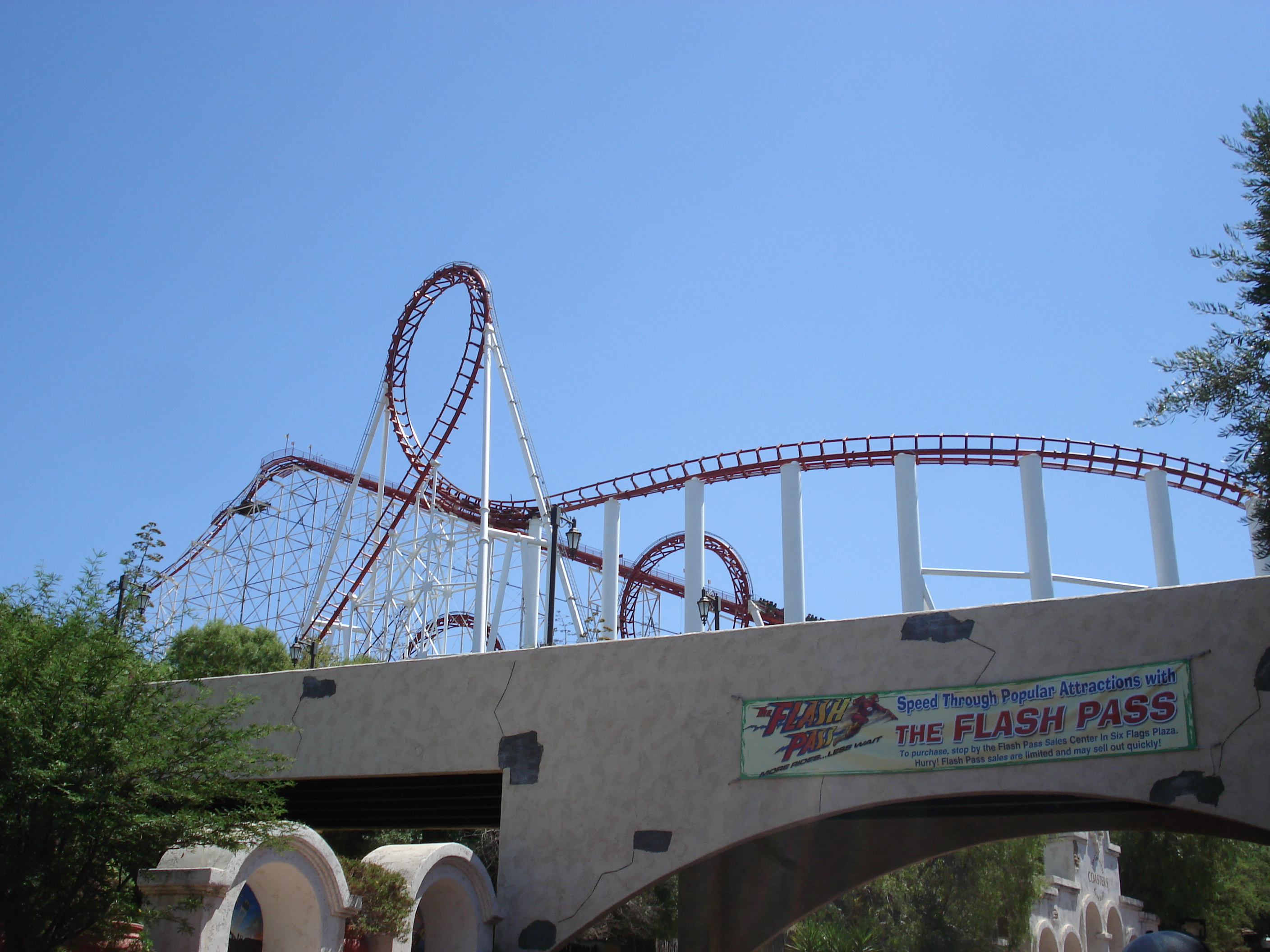 Viper at Six Flags Magic Mountain